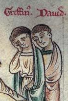 Manuscript drawing showing Llywelyn the Great with his sons Gruffydd and Dafydd. By Matthew Paris, in or before 1259.